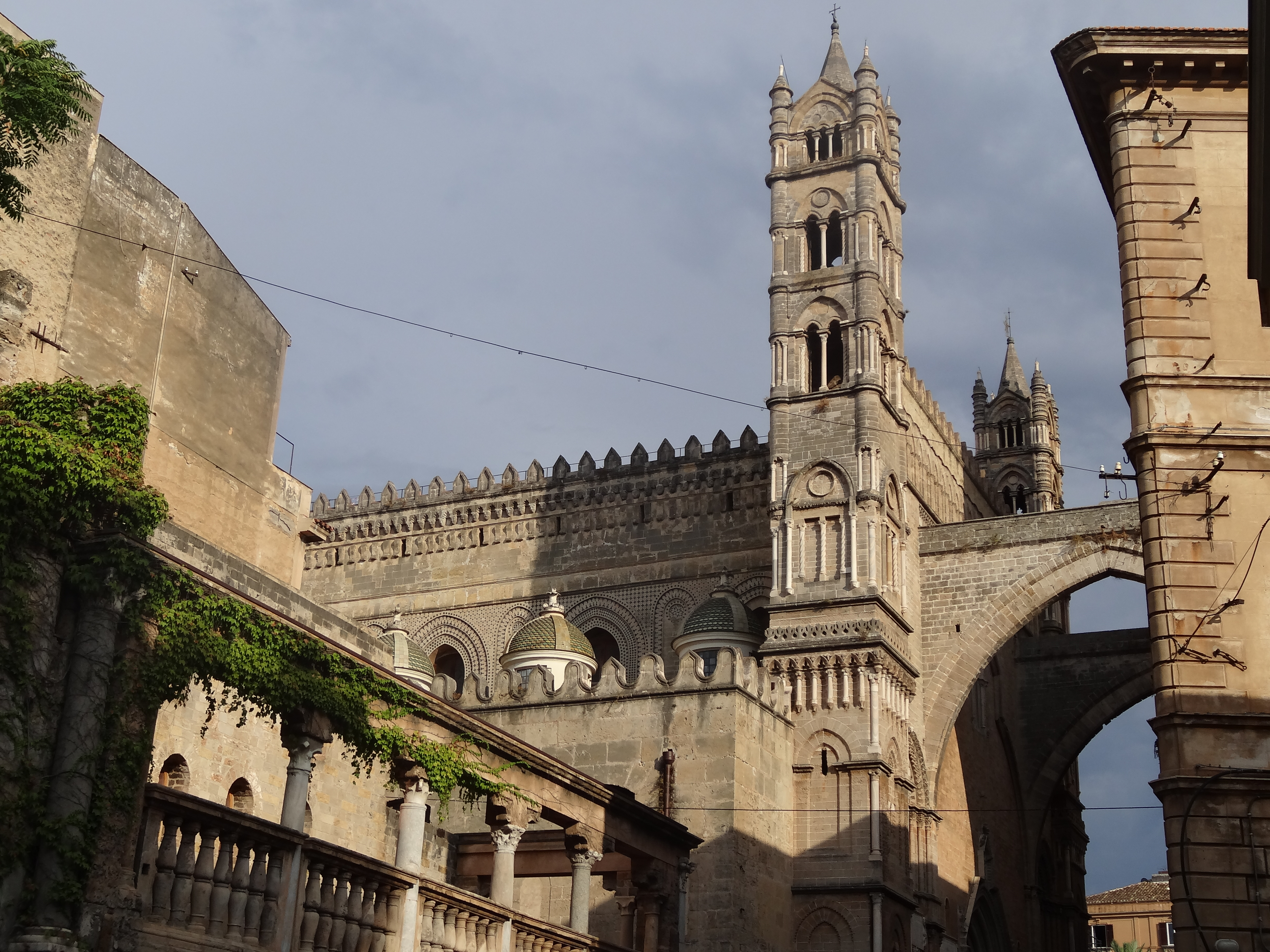 Cattedrale palermo